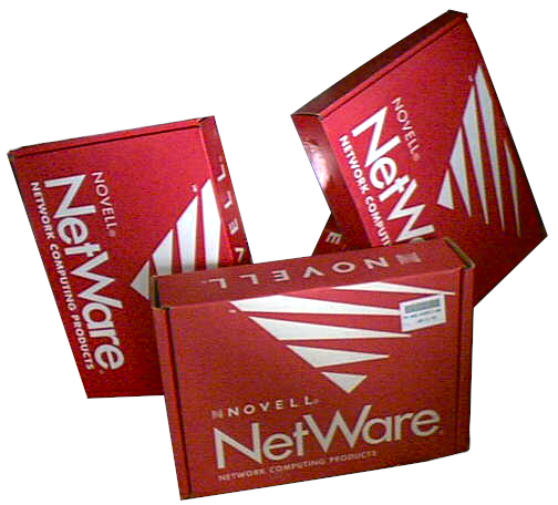 Packages of the Novell NetWare 2.0 product, discovered during an office move.